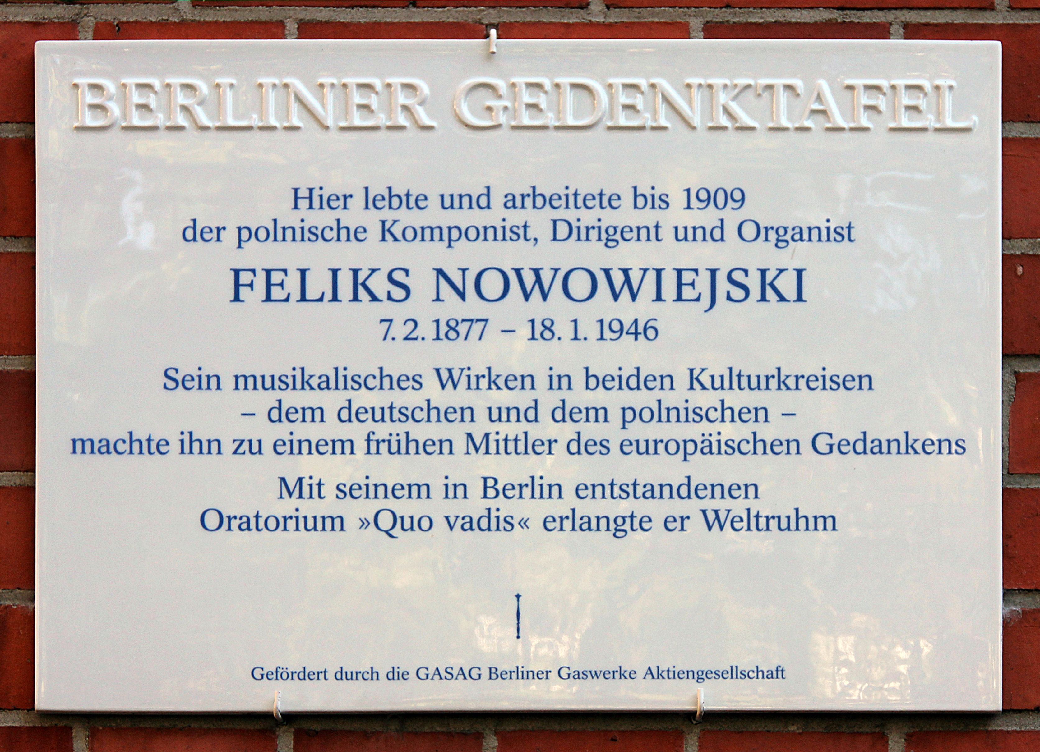 Berlin memorial plaque, Feliks Nowowiejski, Waldenserstraße 28, Berlin-Moabit, Germany